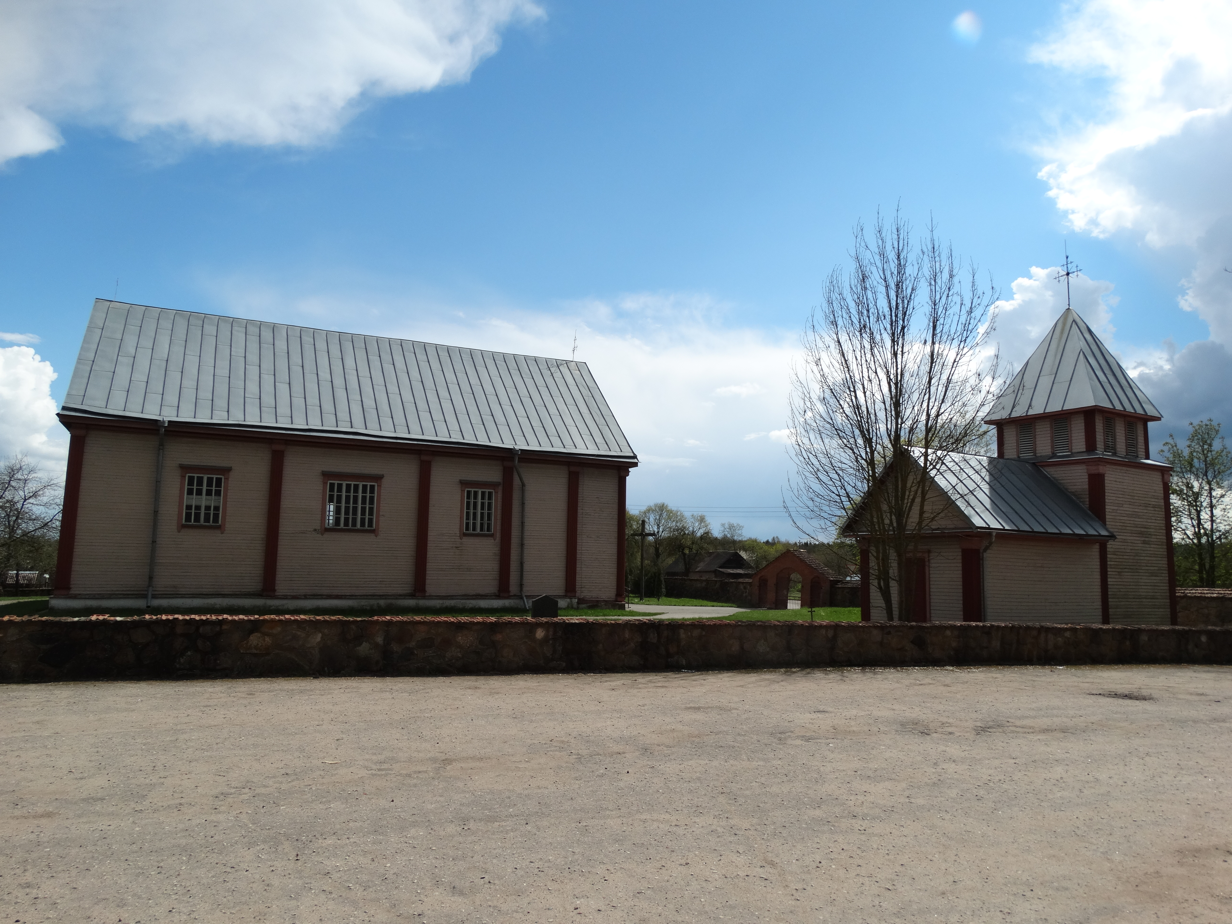 Catholic Church of St. George in Šalčininkėliai, Šalčininkai District, Lithuania